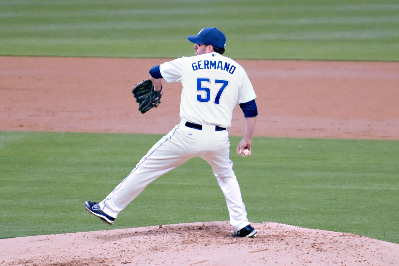 Justin Germano of the San Diego Padres on the mound in Petco.